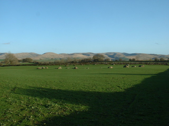 Stone Circle, near Orton. With amazing precision, the ancient Cumbrians who constructed the circle arranged it so that the grid square line bisects it. This photo is taken within NY6308.